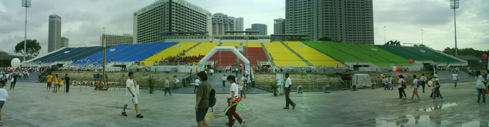 Marina Bay Floating Platform's grandstand